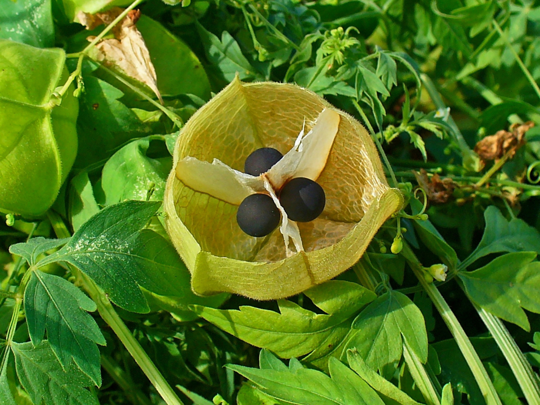 Cardiospermum halicacabum, Sapindaceae, Balloonvine, opened fruit, arrangement of the seeds; Stutensee, Germany. The blooming plants are used in homeopathy as remedy: Cardiospermum (Cardi-h.)